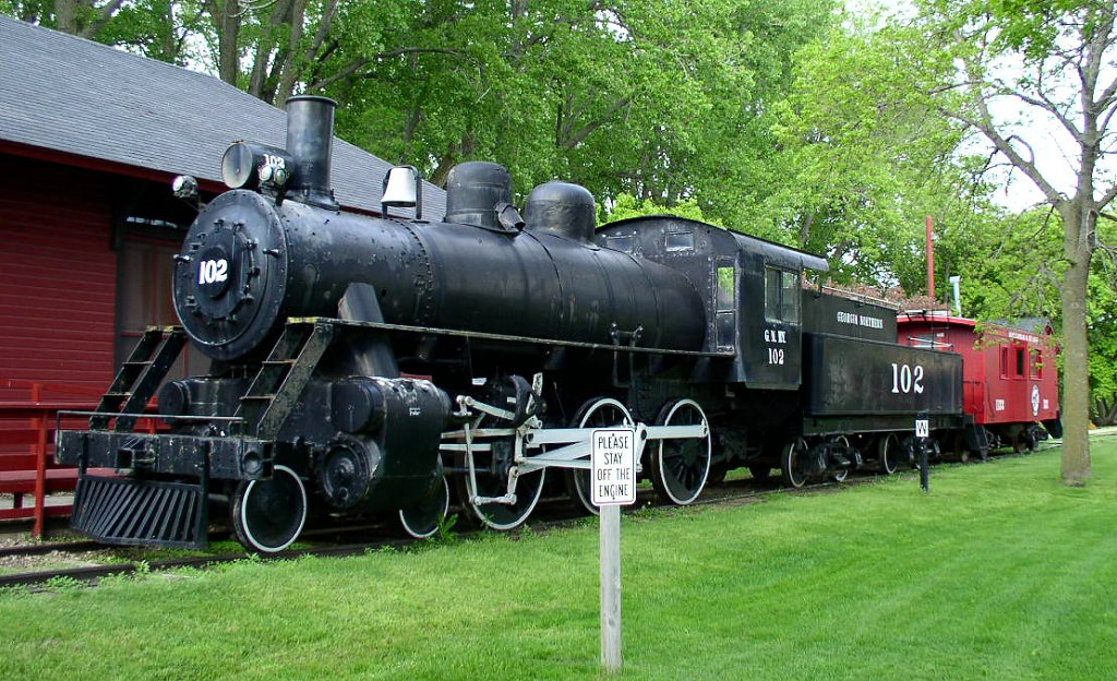 Georgia Northern Railway 102 (Alco (Richmond) #64280 of 1923) at the End-O-Line Railroad Park, Currie, Minnesota, USA